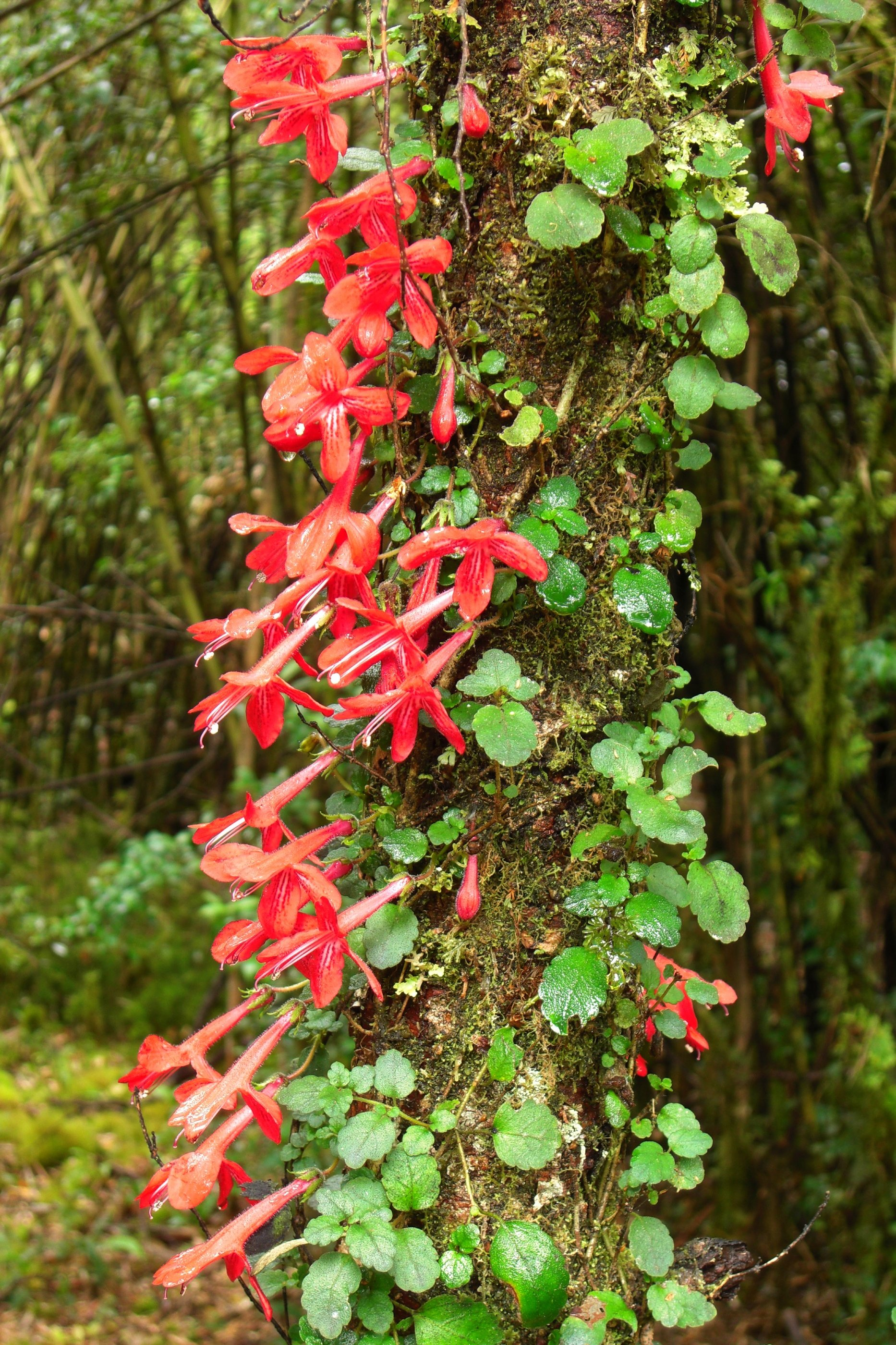 Asteranthera ovata (Cav.) Hanst. 20081221.1 Parque Nacional Puyehue, Chile This spectacularly colorful vine was covering mossy logs and trunks in the lower elevations of the Sendero Chile near Anticura. It is in the Gesneriaceae family.